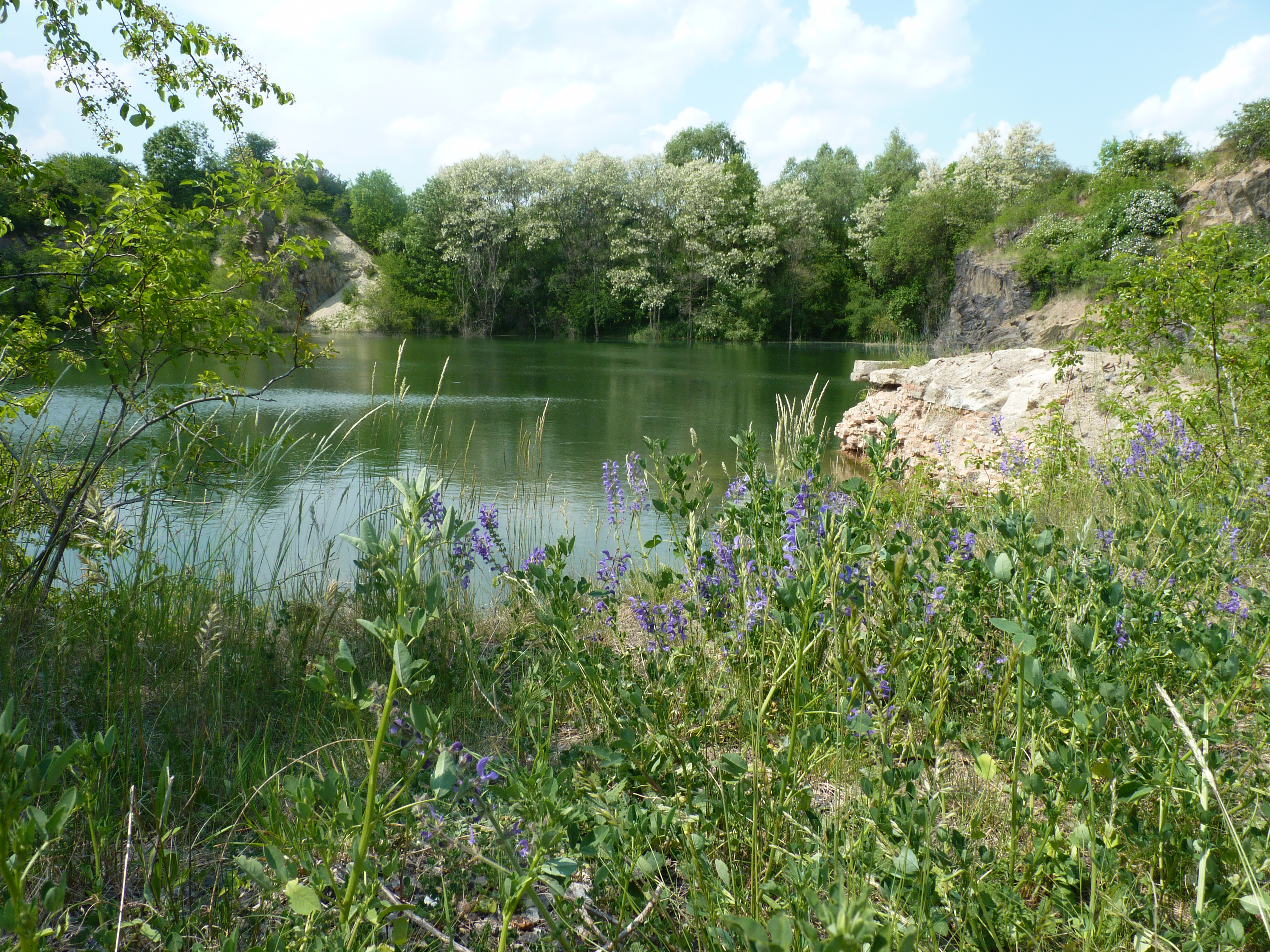 Natural monument Skalka u Velimi